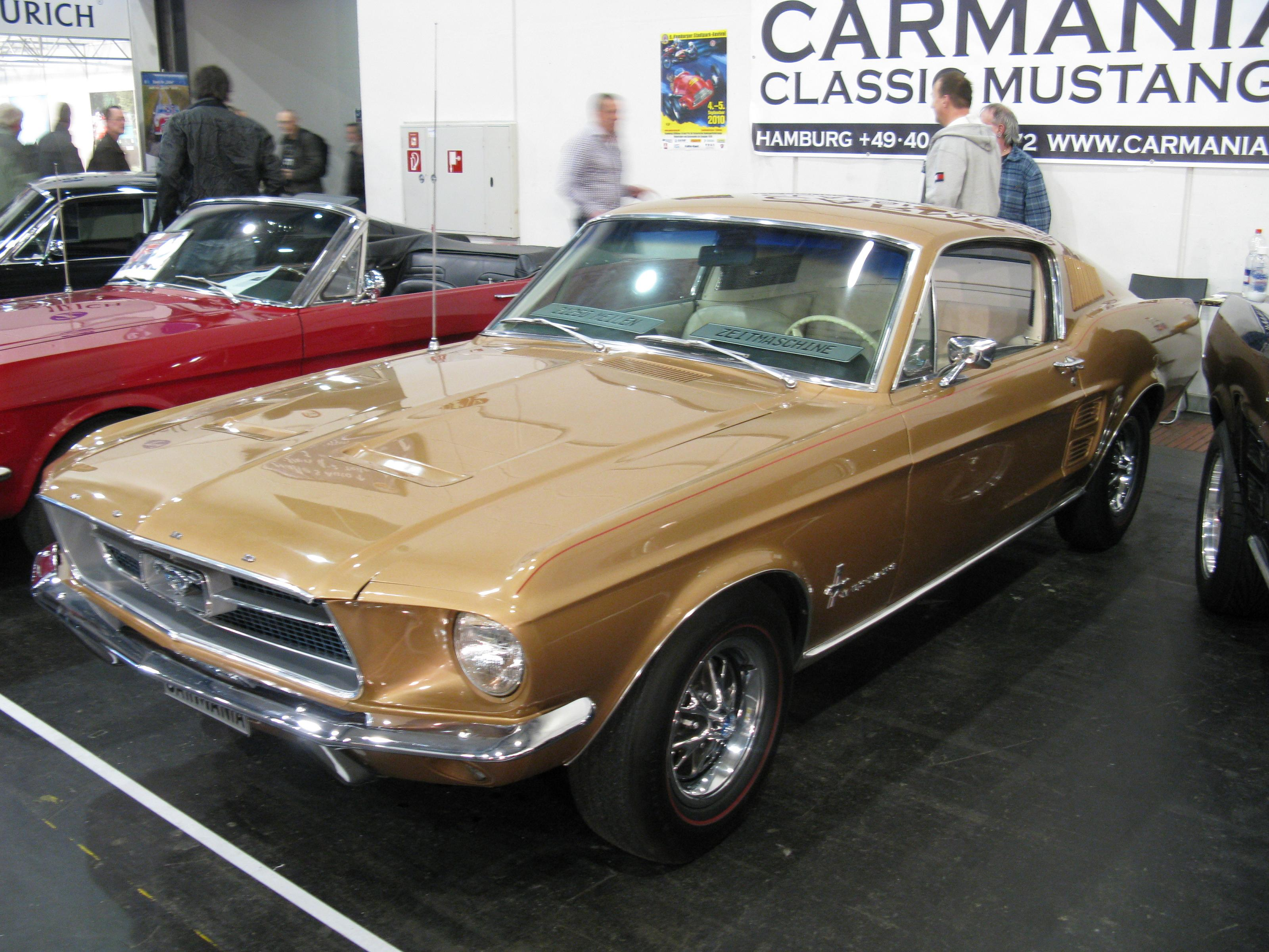 Milage of this is only about 22.000 Miles.